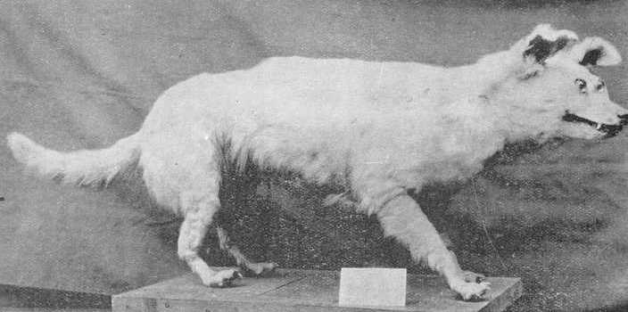 Kuri, Maori or native dog. Dominion Museum collection.